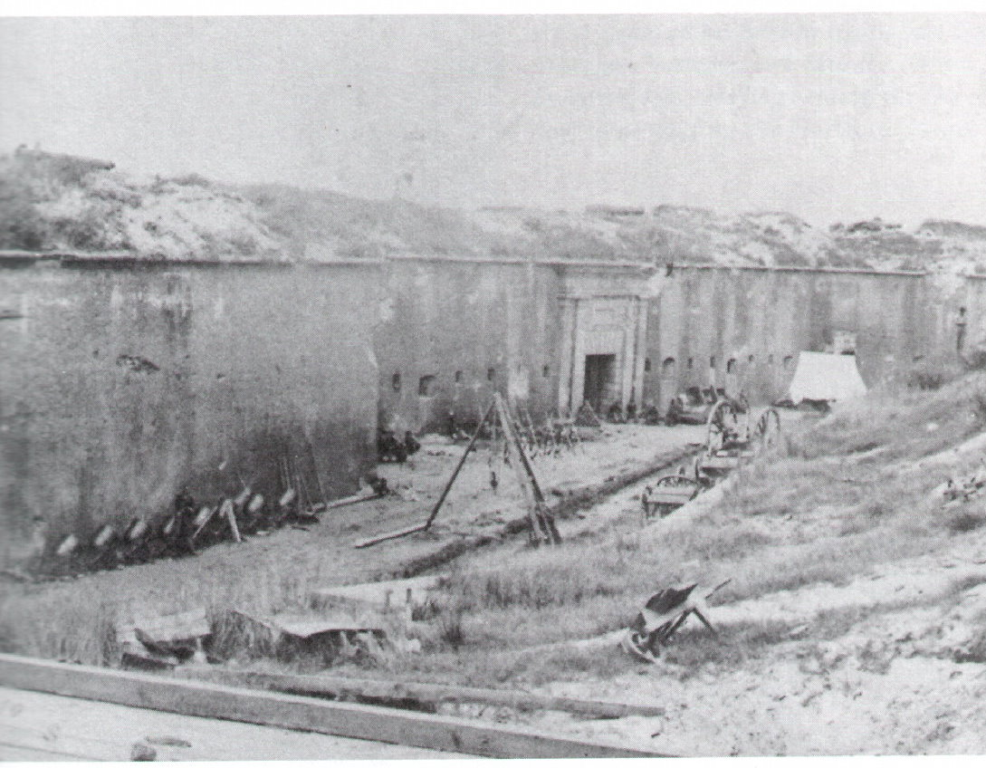 Fort Morgan (Alabama) after surrending